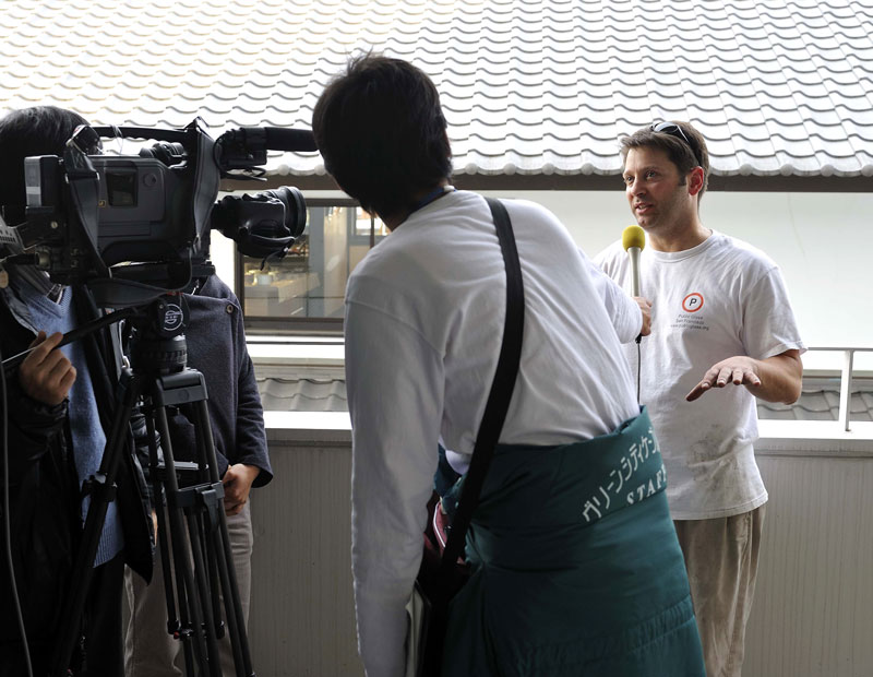 David Patchen being interviewed by Japanese television during his residency through the Seto City International Ceramic and Glass Art Exchange Program.